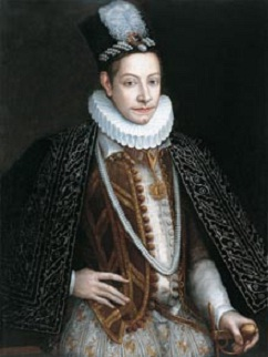 Portrait of Charles Emmanuel I, Duke of Savoy (1562-1630)